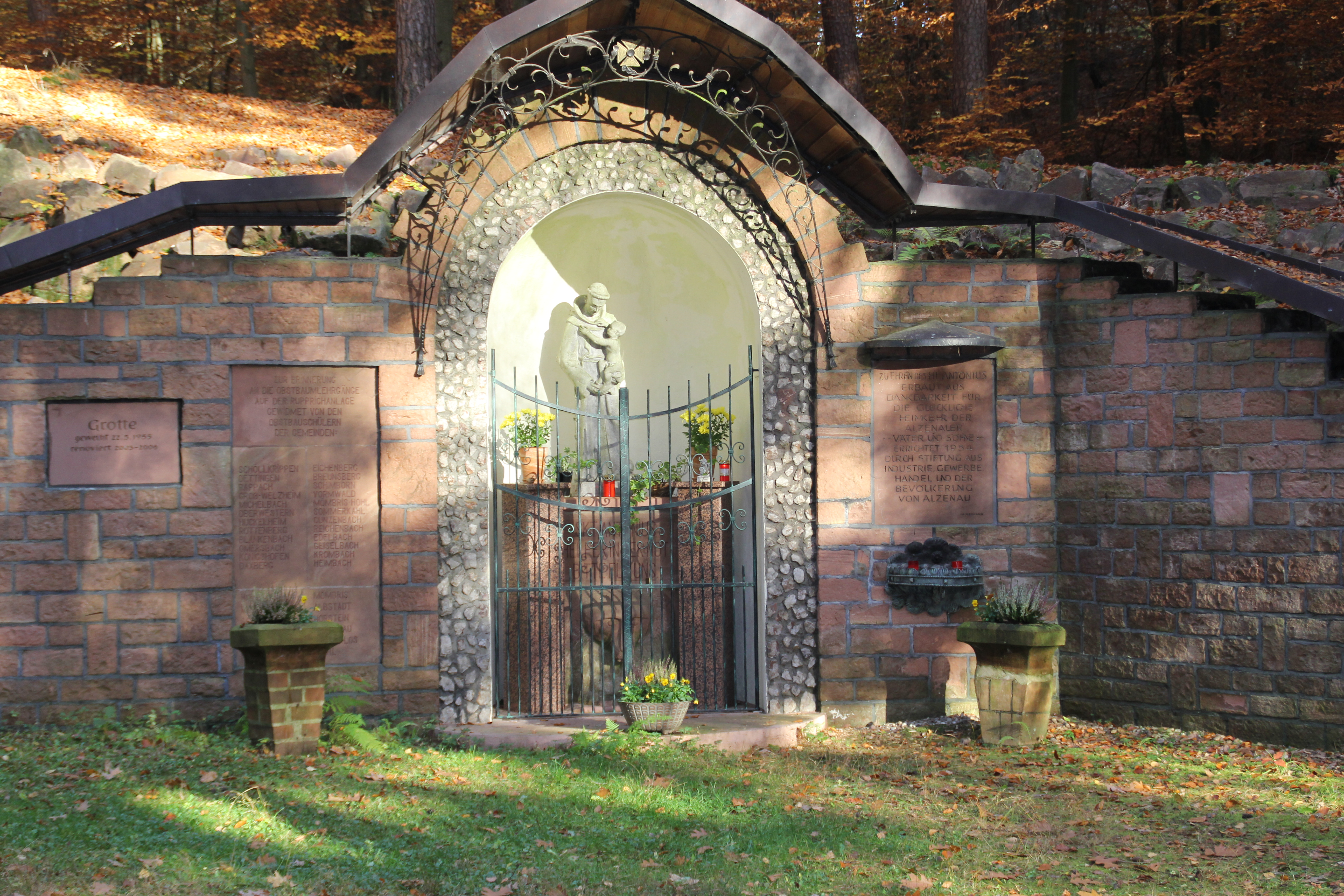 The Antonius grotto near Alzenau